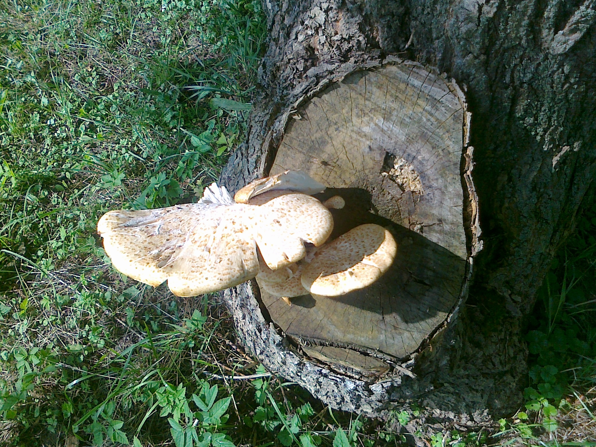 mushroom. Minsk. Belarus